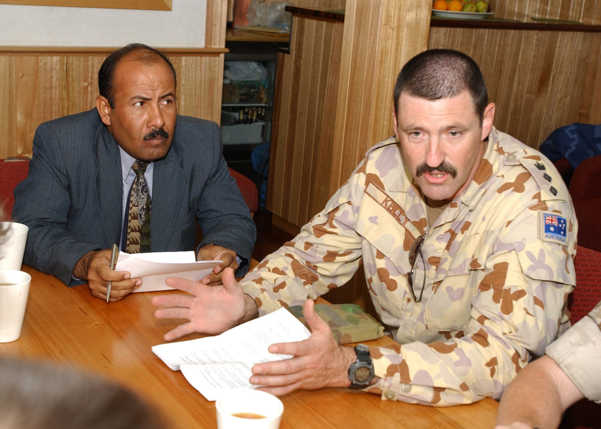 030910-N-4943L-002 North Persian Gulf (Sep. 10, 2003) -- An Iraqi Investigating Judge from Al Basrah, right, listens intently to Australian Army Col. Mike Kelly from the Coalition Provisional Authorities Office of General Council while aboard the Royal Australian Navy frigate HMAS Newcastle (FFG 06). The judge, along with representatives of Commander, U.S. Naval Forces Central Command, in conjunction with the Coalition Provisional Authority and Commander, Joint Task Force Seven, are visiting vessels being detained in Iraqi territorial waters to adjudicate smuggling cases. Coalition naval forces have conducted Maritime Interdiction Operations (MIO) in the Persian Gulf since 1990. Prior to Operation Iraqi Freedom, MIO was focused on enforcing United Nations sanctions against Iraq. More recently, those intercept operations have been focused on stemming the flow of contraband goods, including smuggled Iraqi oil.